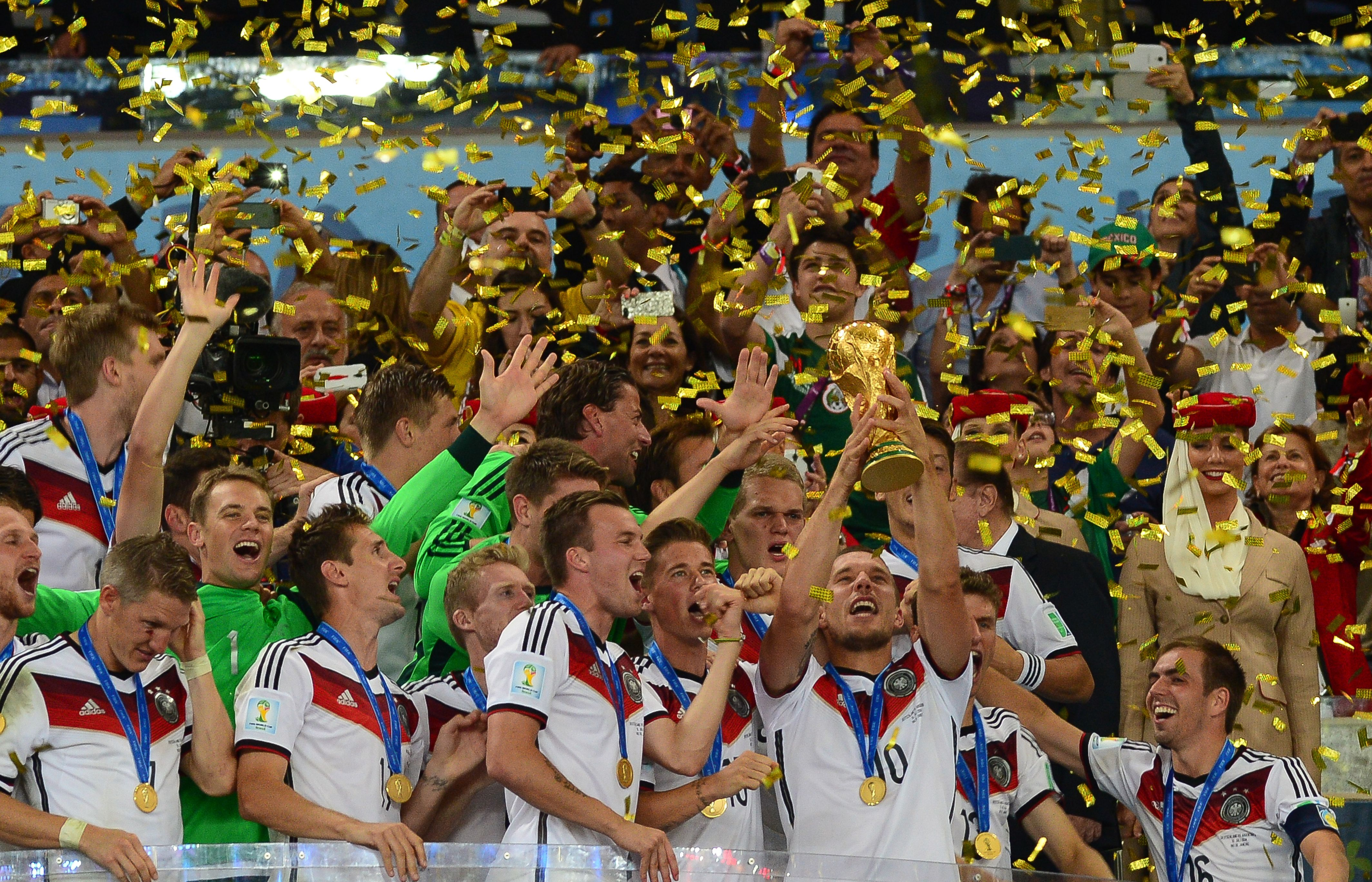 Germany lifts the 2014 FIFA World Cup after beating Argentina 1-0